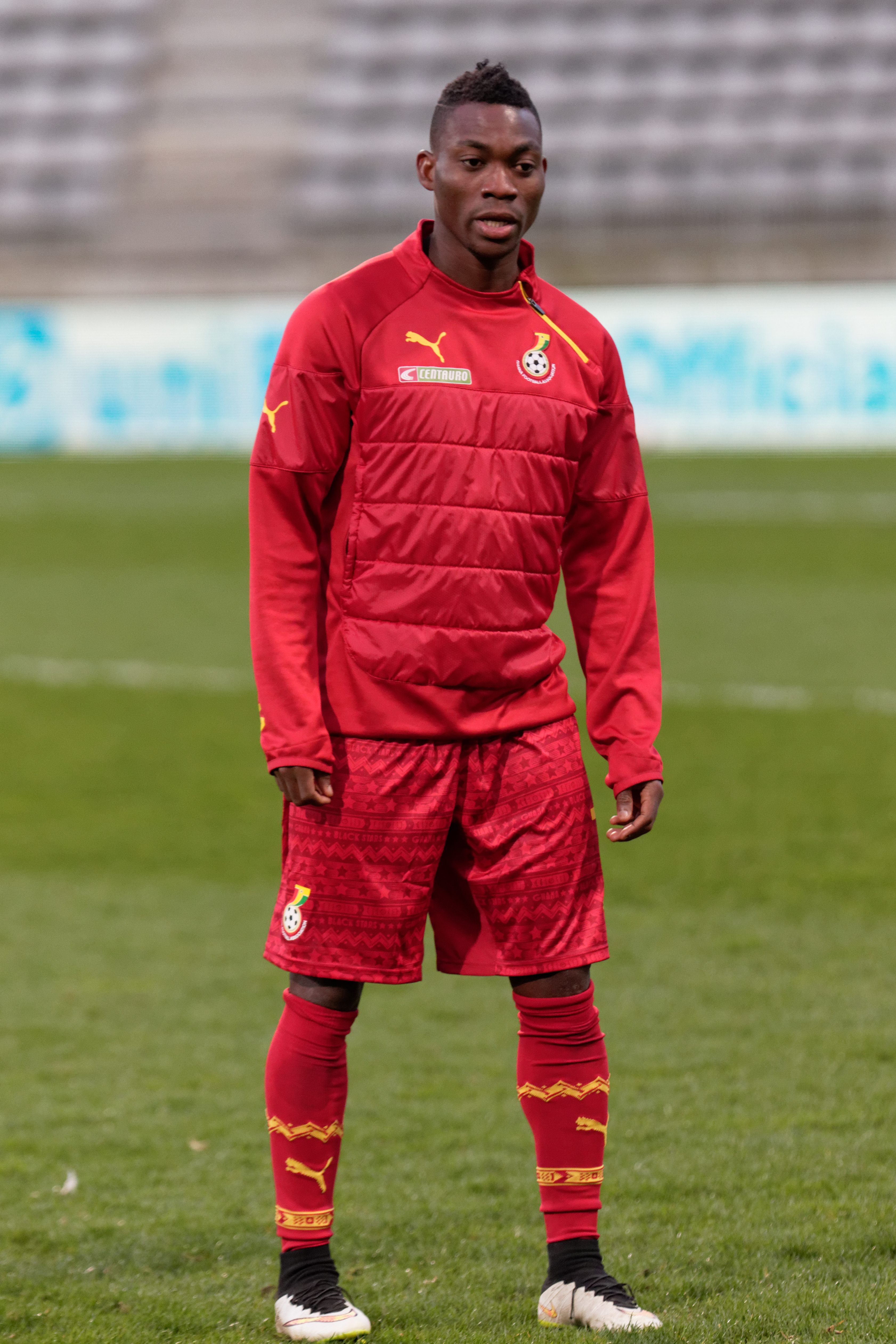 Mali vs Ghana, exhibition game at Paris, 31st March 2015.